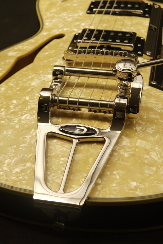 Duesenberg Diamond Deluxe Tremola